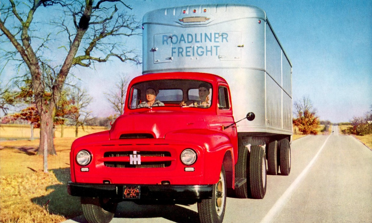 1953 International R-165 Roadliner, old advertising postcard